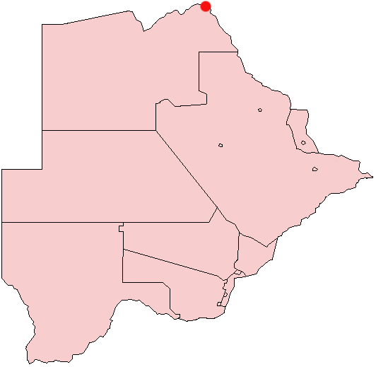 Kasane, Botswana Location Map; created with the GIMP. Made by User:Acntx.